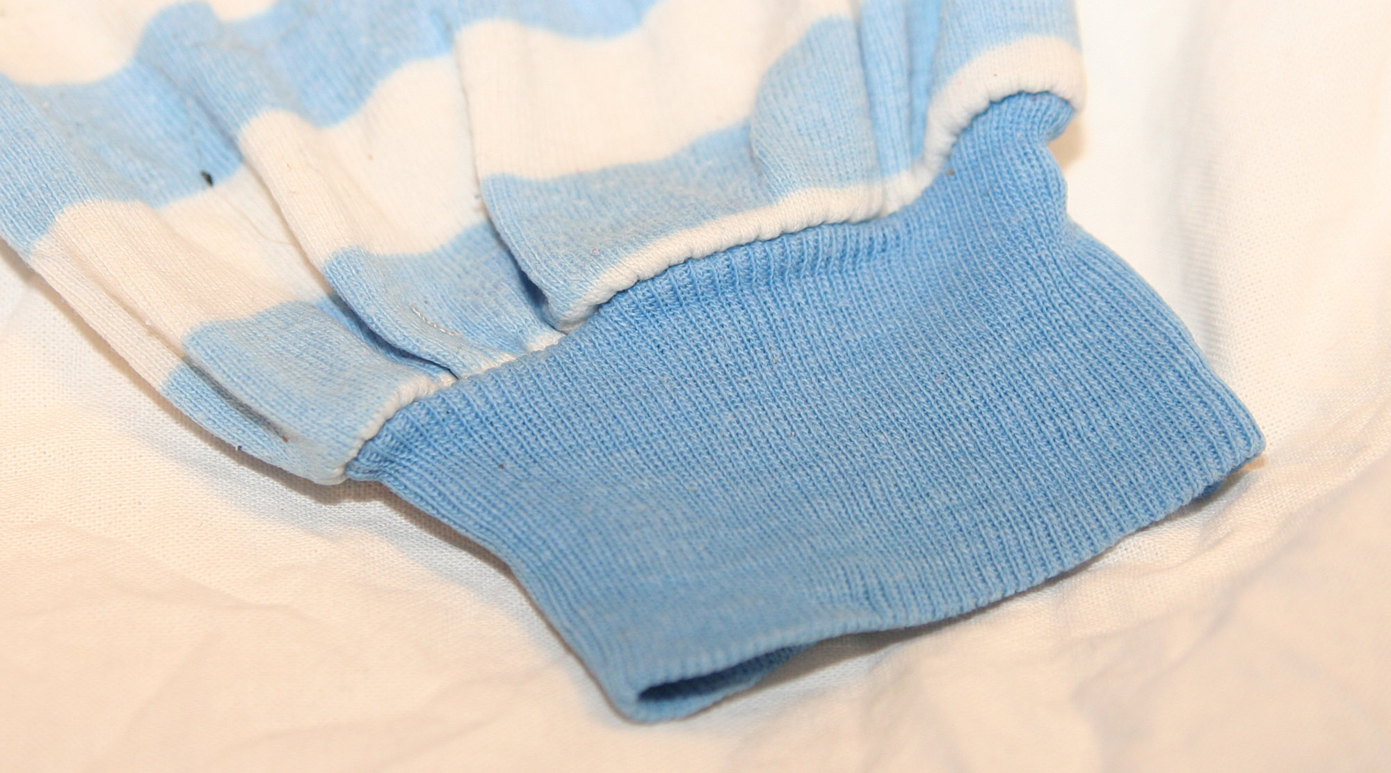 Cuff on a trouser leg at a baby's dress